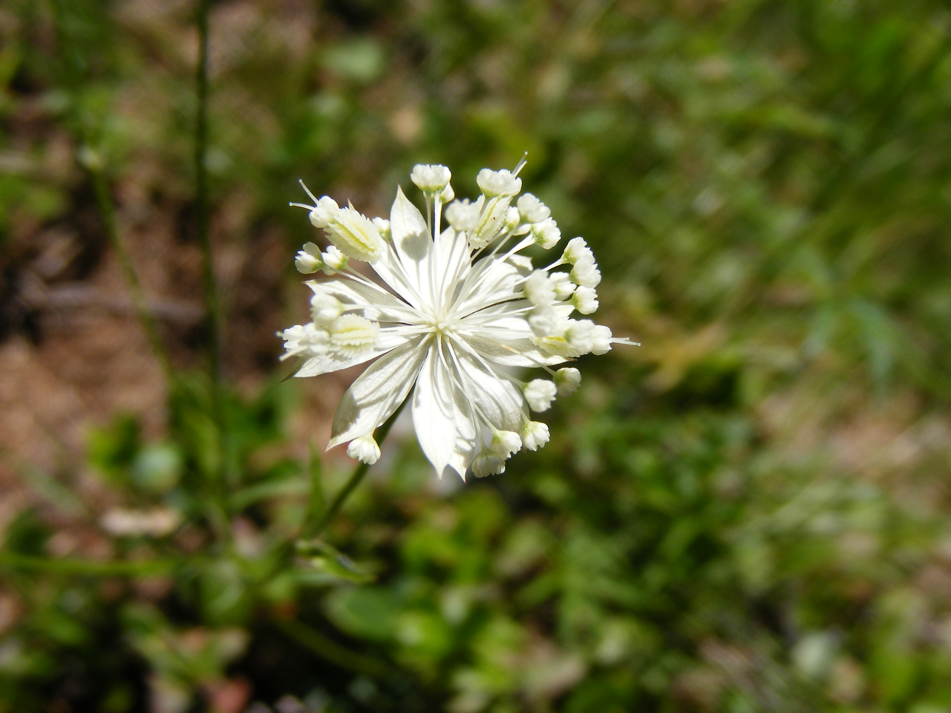 This photo shows Astrantia minor Flowerhead